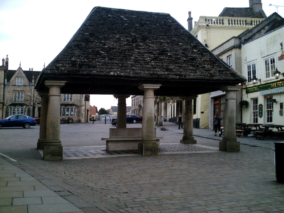 The market Buttercross in Chippenham, Wiltshire, England